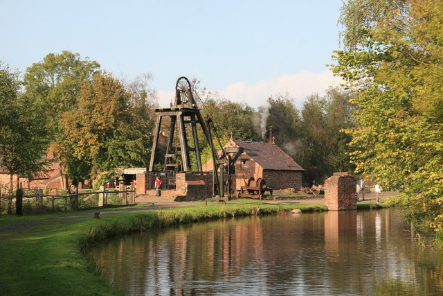 Reconstructed colliery, Blists Hill. This is on the site of an original colliery and uses the upper part of its shaft. The building houses a steam winding engine.